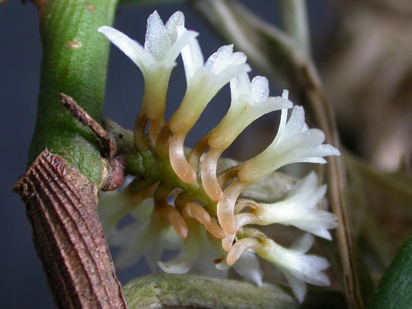 Campylocentrum micranthum - specimen from Brazil